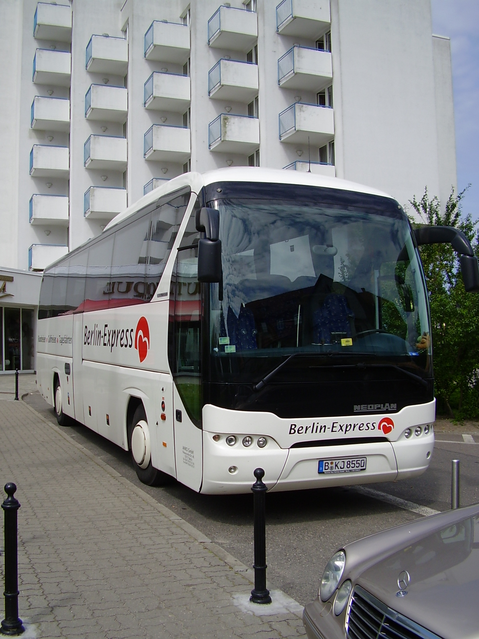 Neoplan N2216 SHD Tourliner coach from ANKO GmbH Berlin next to Hotel Amber Baltic in Międzyzdroje, Poland.